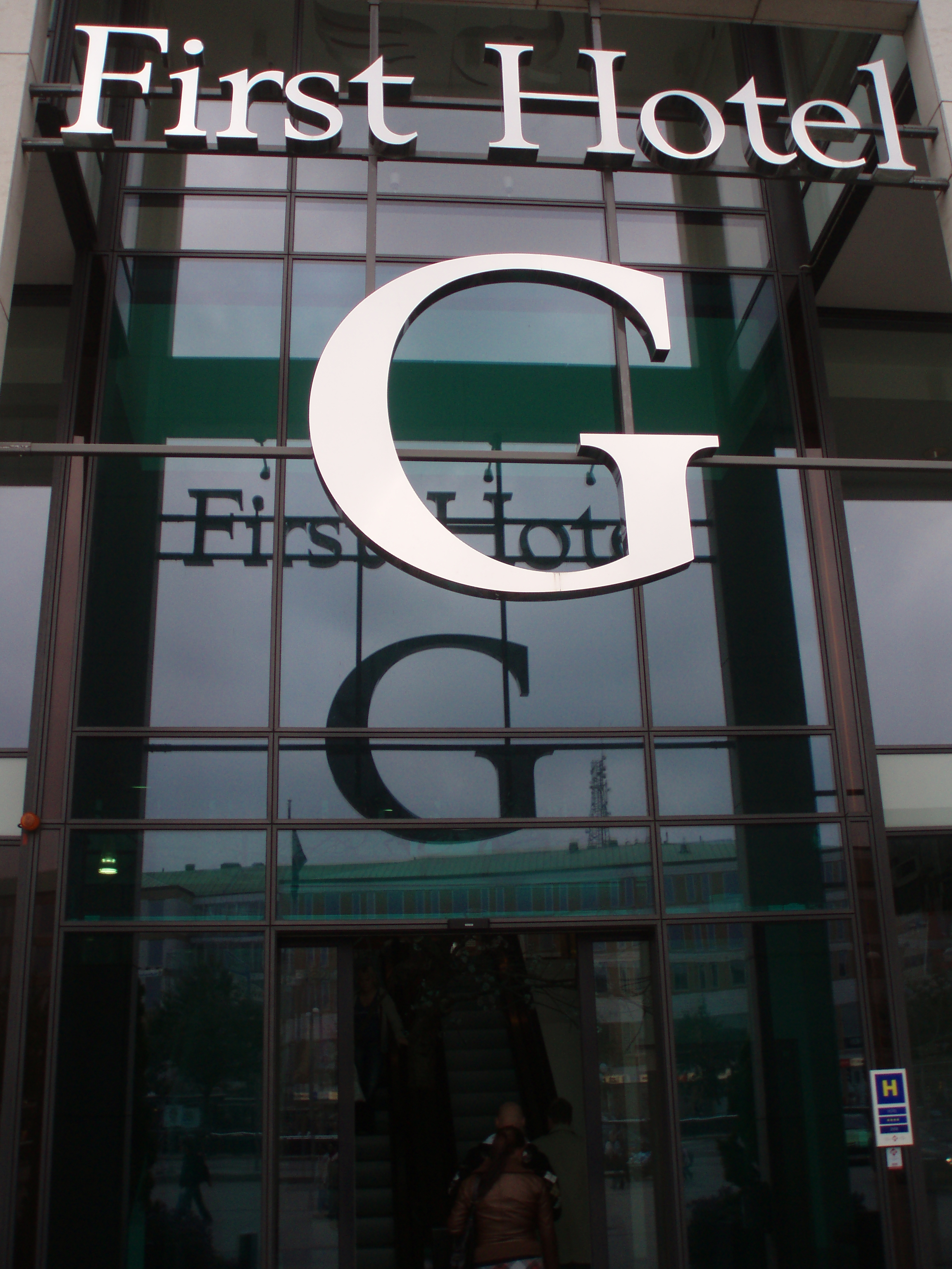 The entrance to First Hotel G.